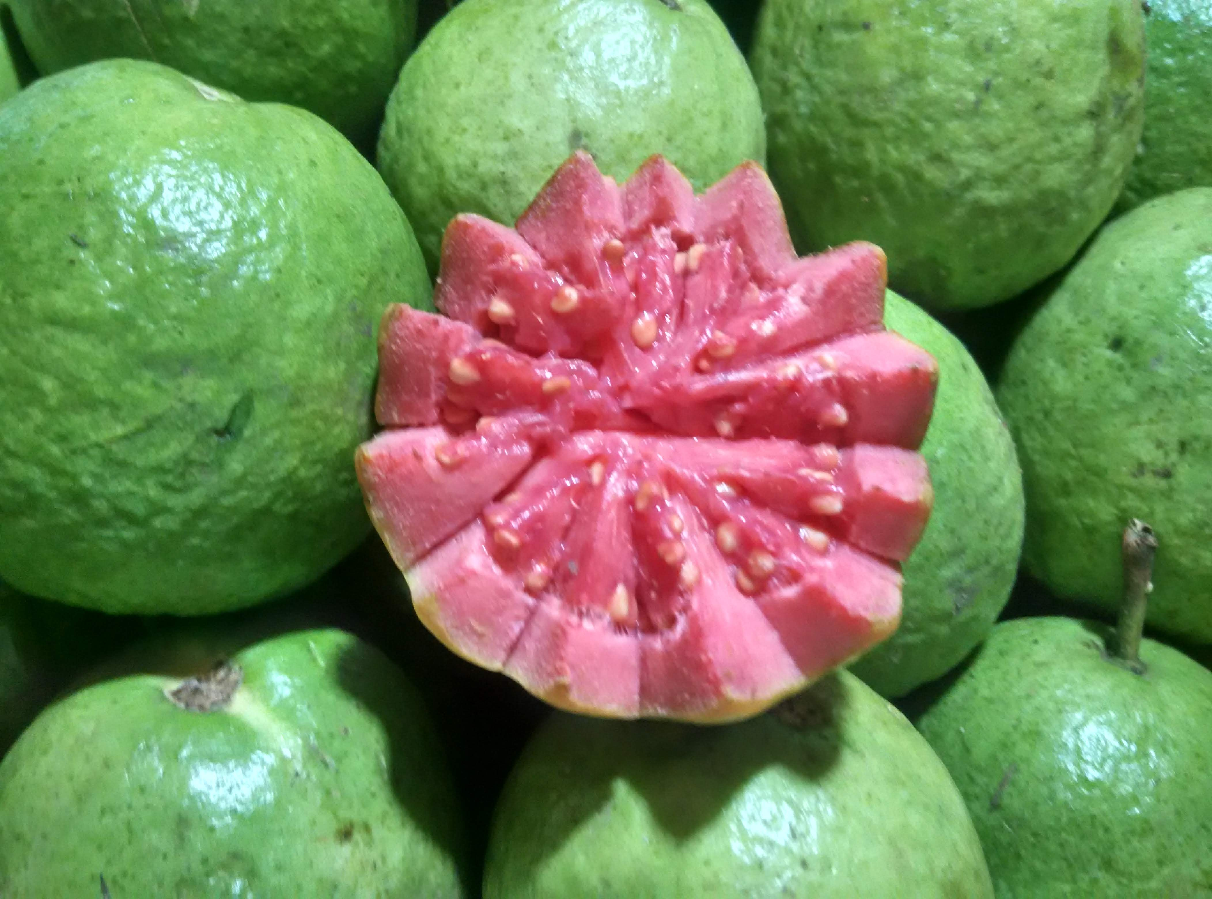 Guava - Psidium guajava fruit of Tamilnadu, India.